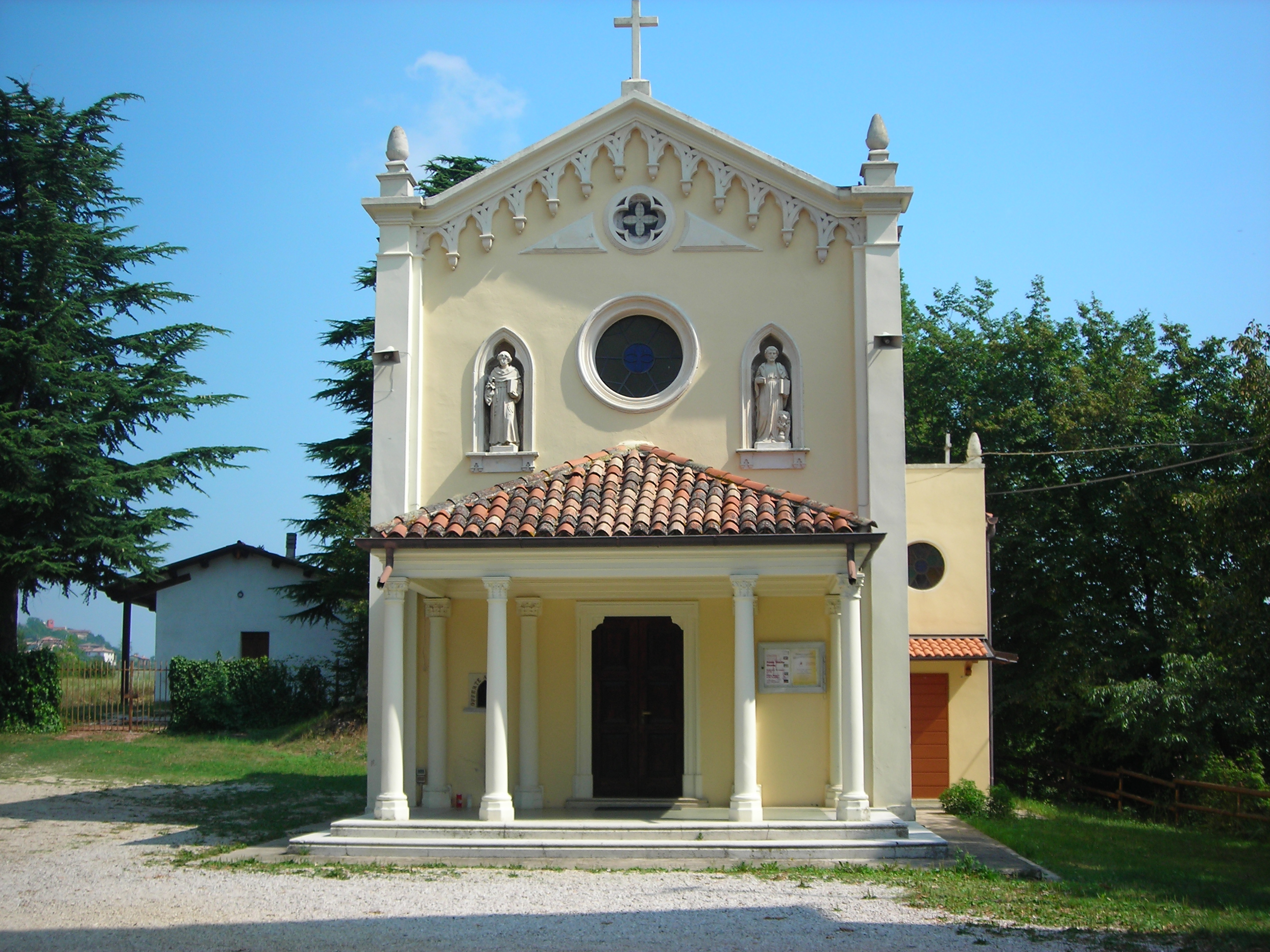 Our Lady of Graces Church, Vicenza, Italy